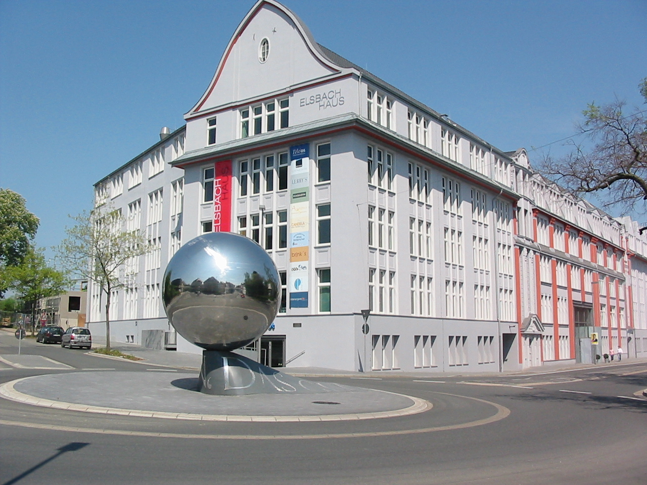 Sculpture in town of Herford, District of Herford, North Rhine-Westphalia, Germany.